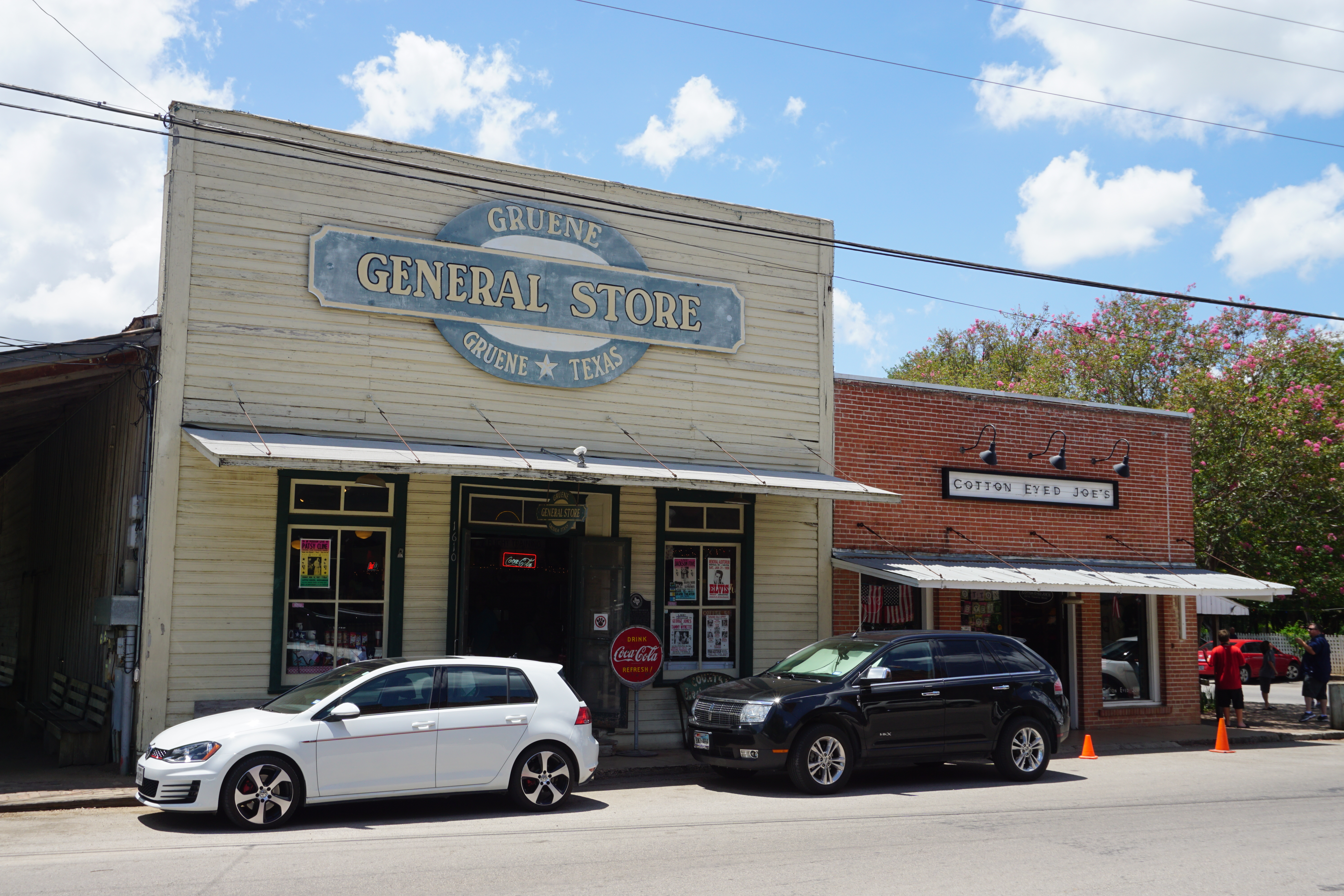 The Gruene General Store and Cotton Eyed Joe's in the Gruene district in New Braunfels, Texas (United States).